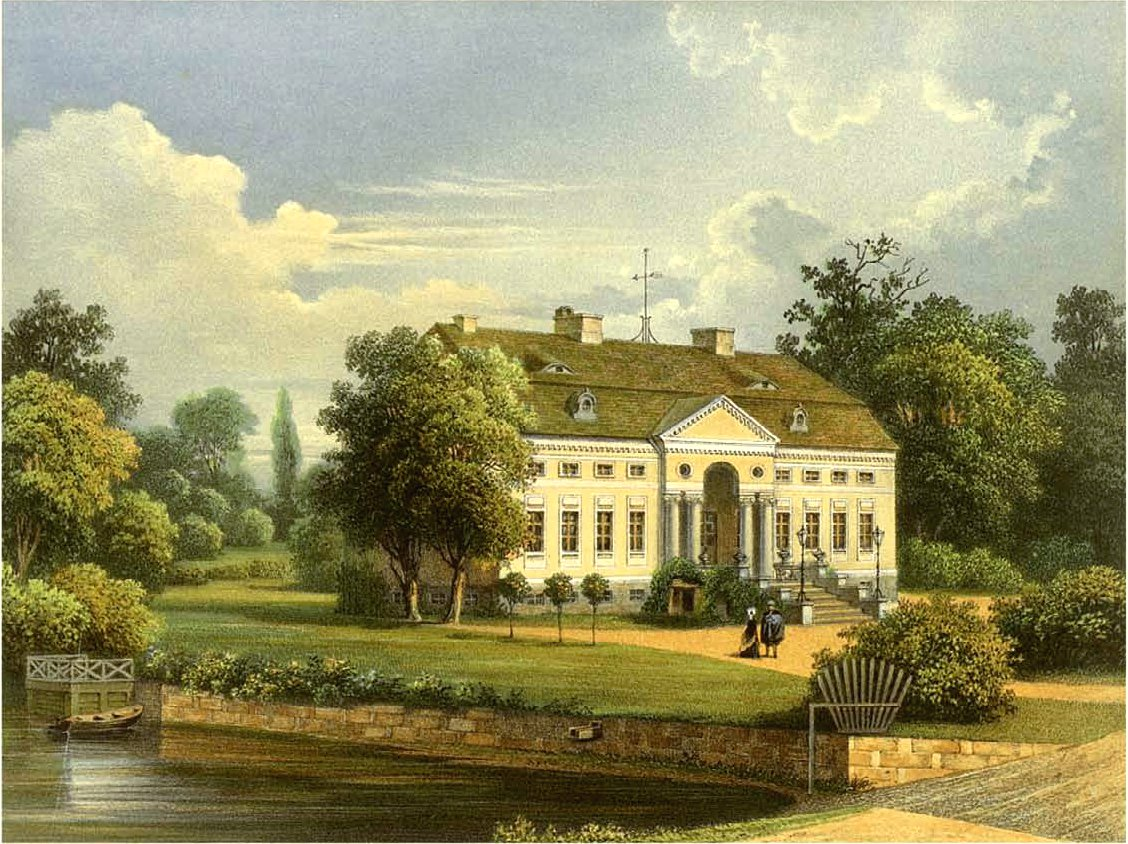 Manor in Czerwony Kościół, Poland